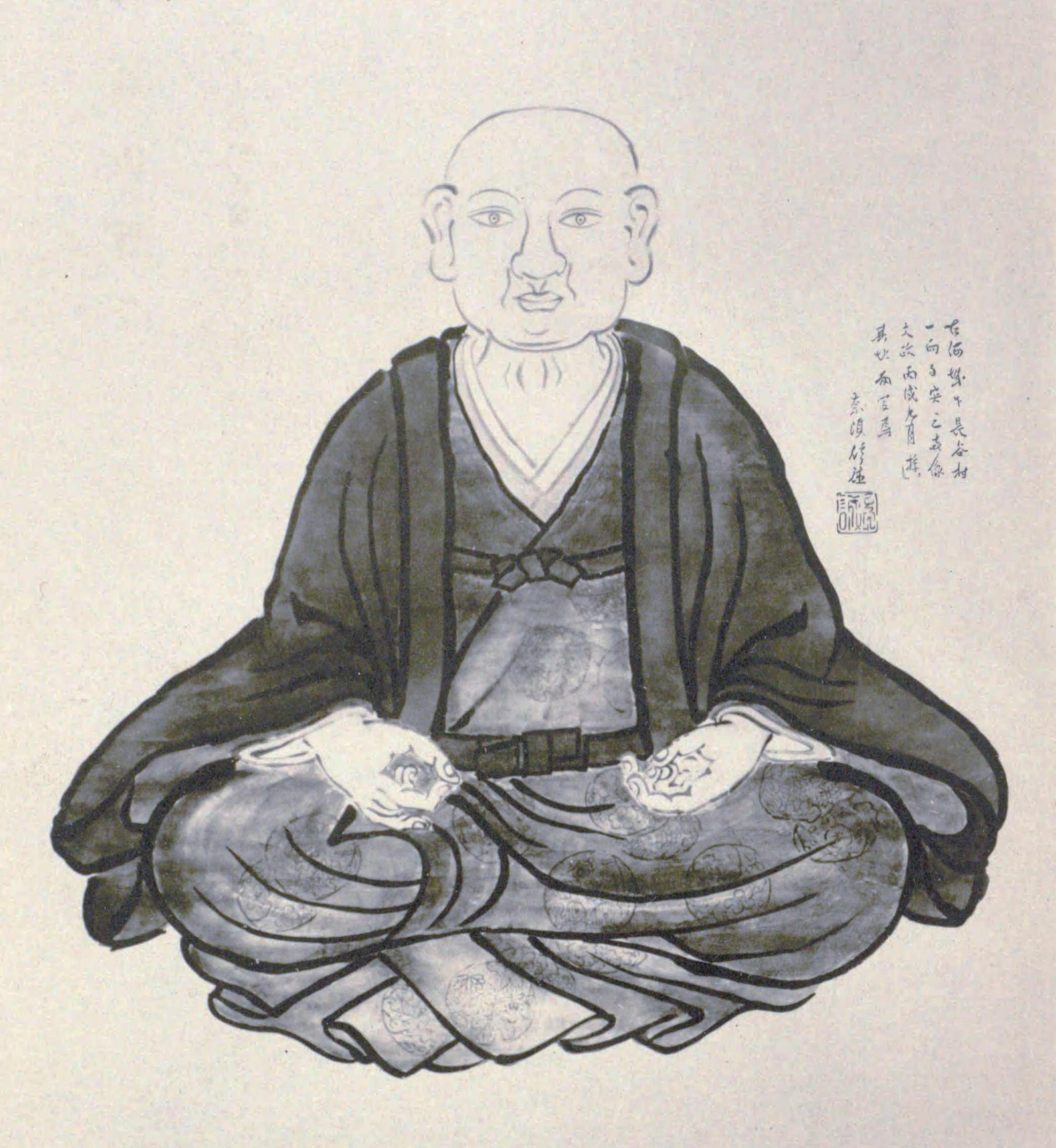 Portrait of Tashiro Sanki